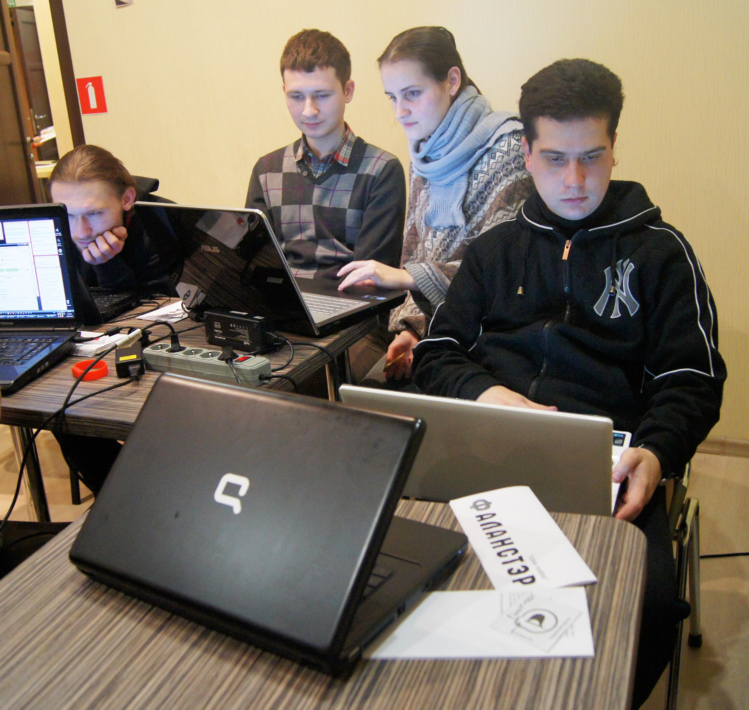 The first cryptoparty in Minsk